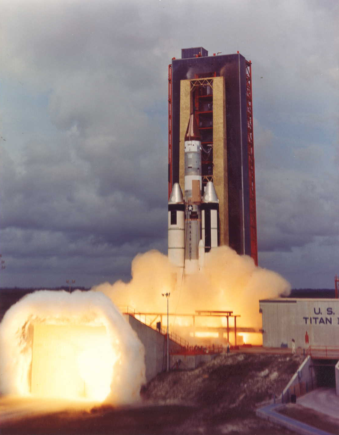 Titan IIIC-11 successfully launches 7 Initial Defense Communications Satellite Program (IDCSP) satellites and 1 experimental satellite from Cape Canaveral on 16 June 1966.